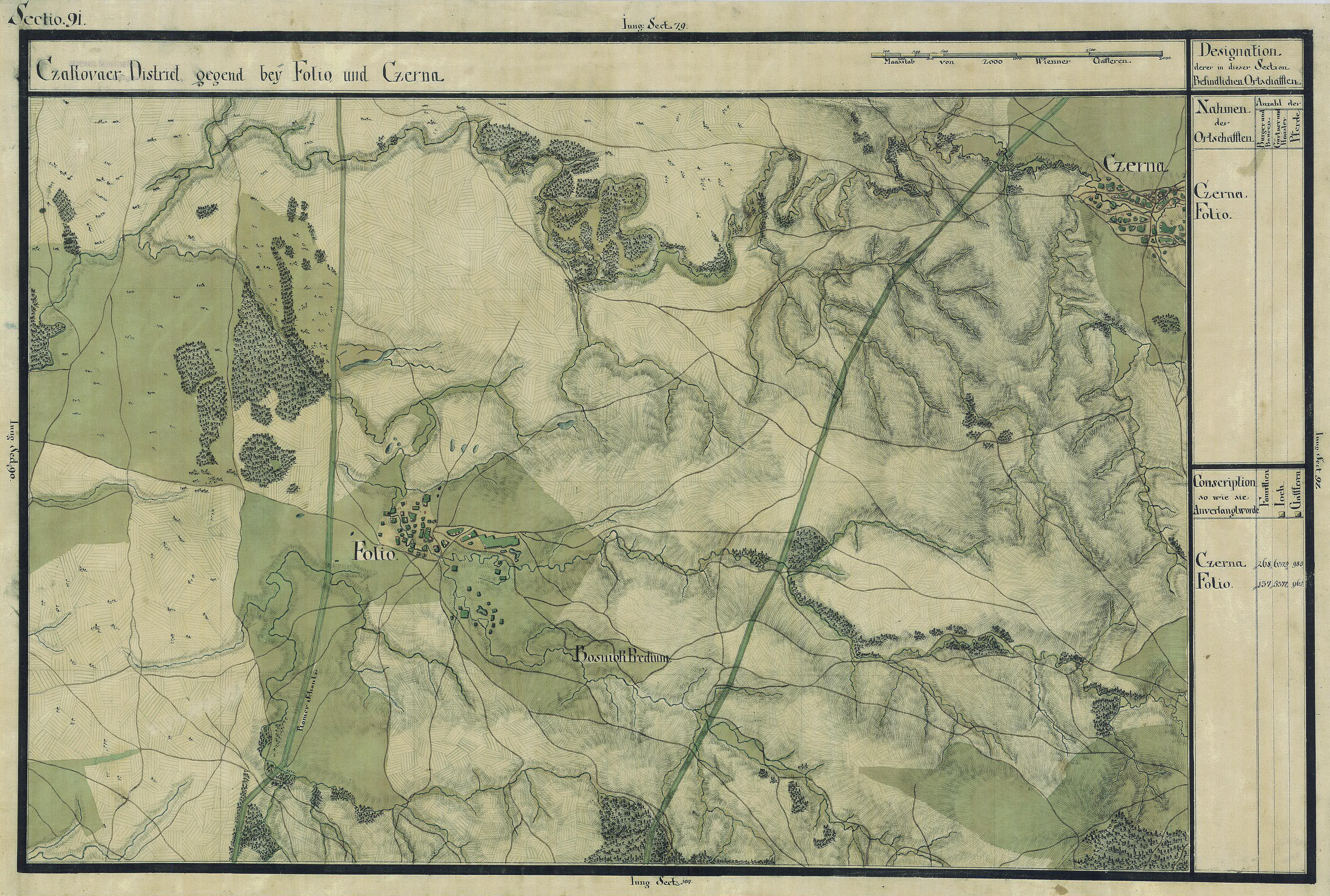 The Banat region in the cadastral maps: Josephinische Landesaufnahme, 1769-72. Josephinische Landaufnahme pg091